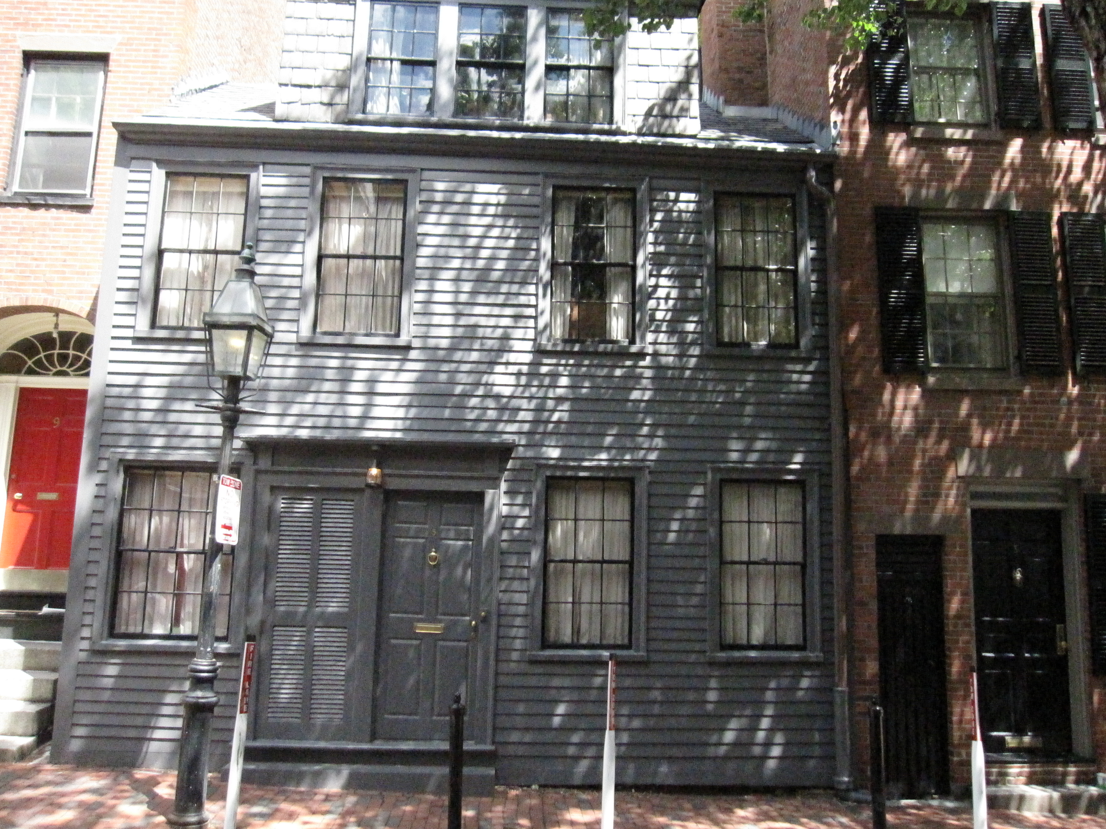 George Middleton House. 5-7 Pinckney Street, Boston, Mass. "Built in 1797, this is the oldest extant home built by African Americans on Beacon Hill. Its original owners were George Middleton (1735-1815), a liveryman, and Louis Glapion, a hairdresser. Both Middleton and Glapion were members of the African Lodge of Masons founded by black educator Prince Hall."-- Retrieved 05-17-2010